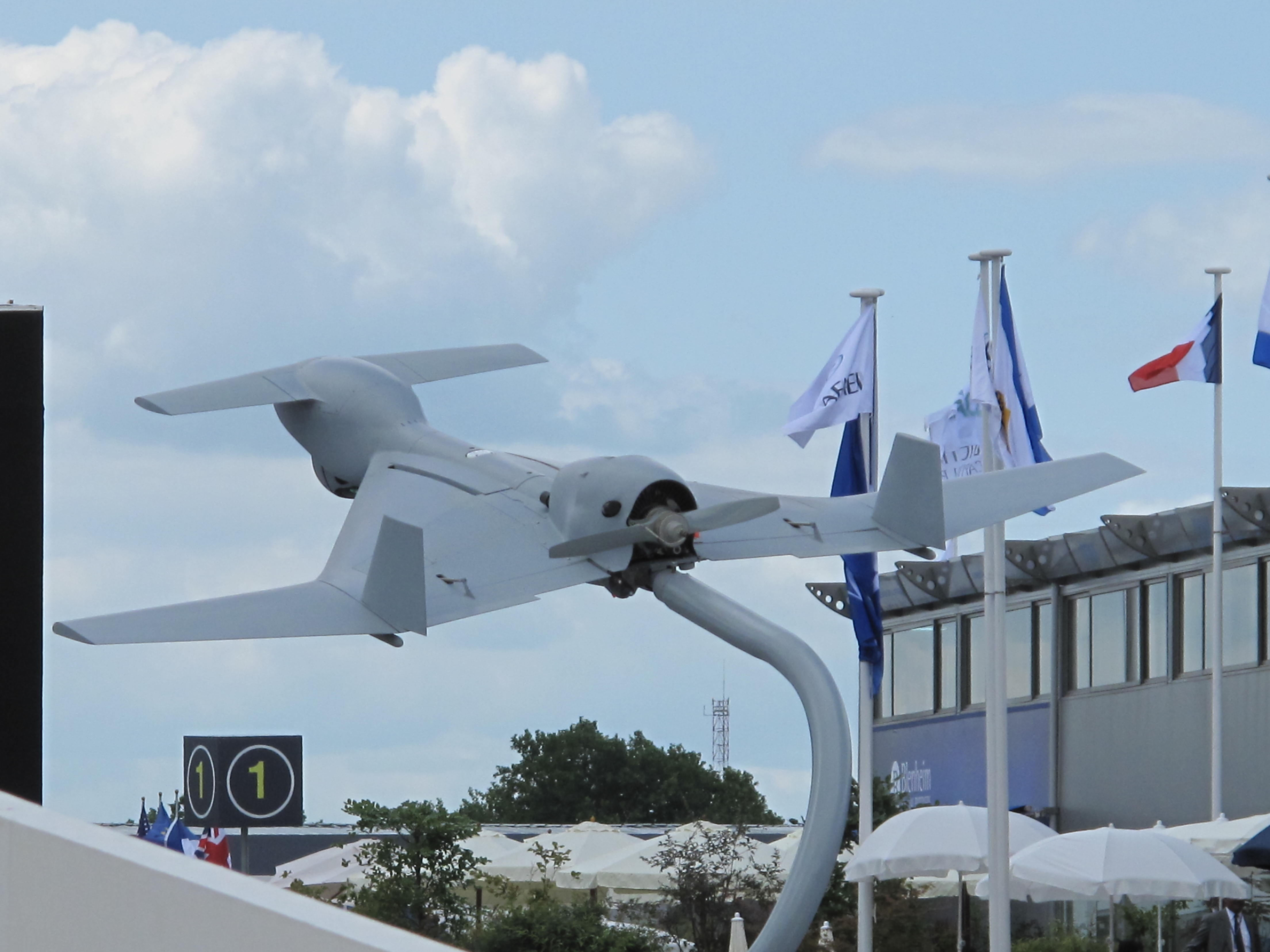 Israelian UCAV IAI Harop at the Paris Air Show 2009